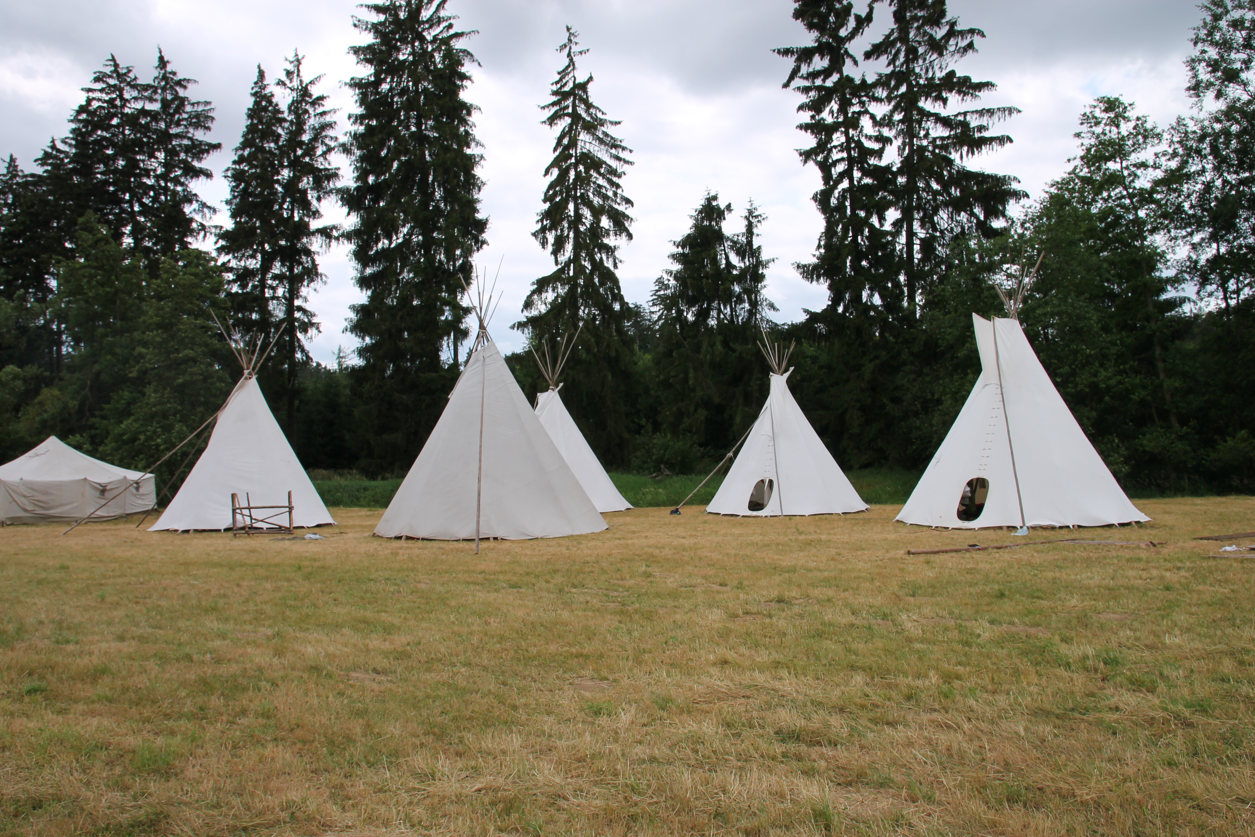 Scout campsite Valeč u Hrotovic, tipis